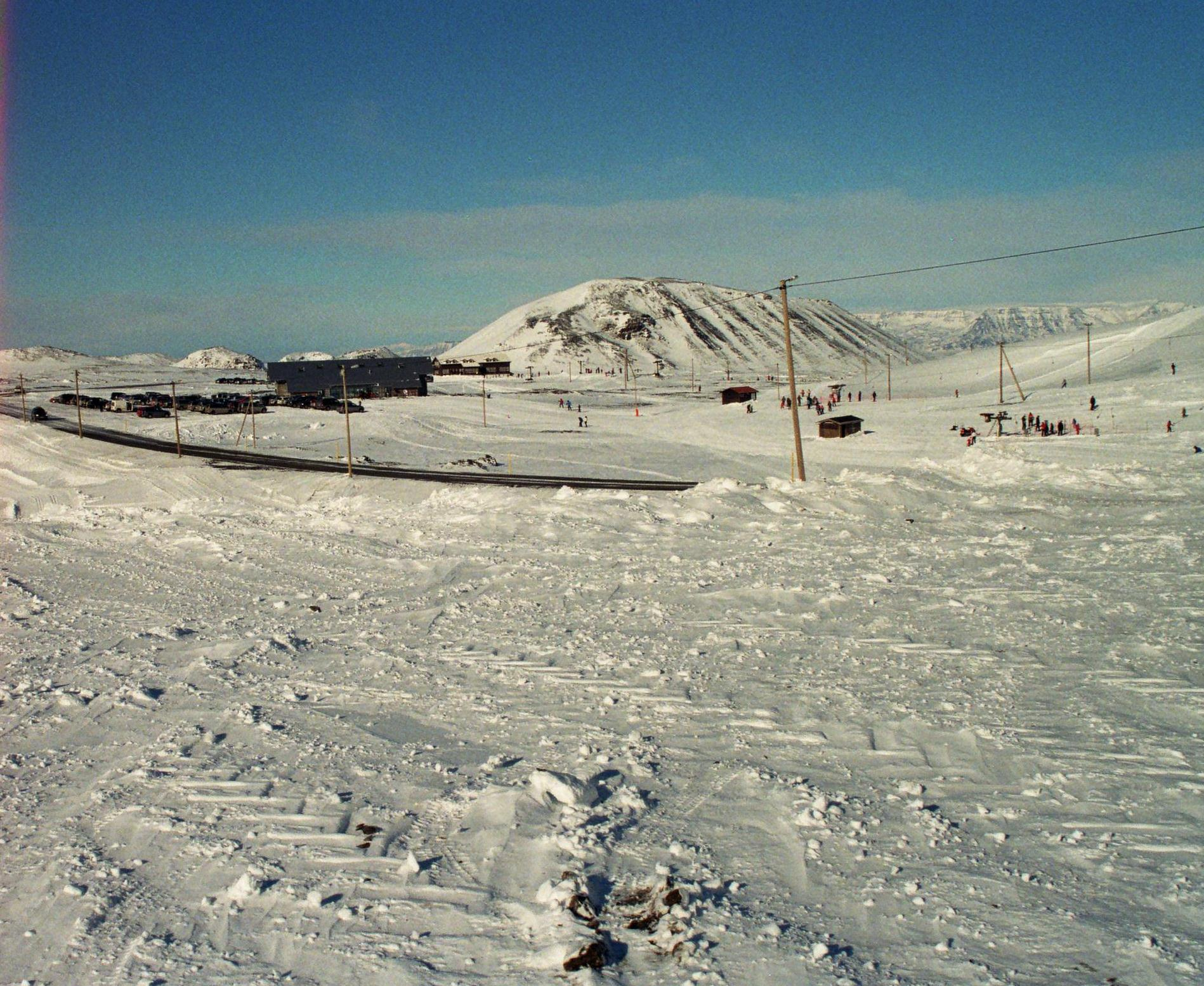 Skiing area in the Bláfjöll mountain range, south-west Iceland.